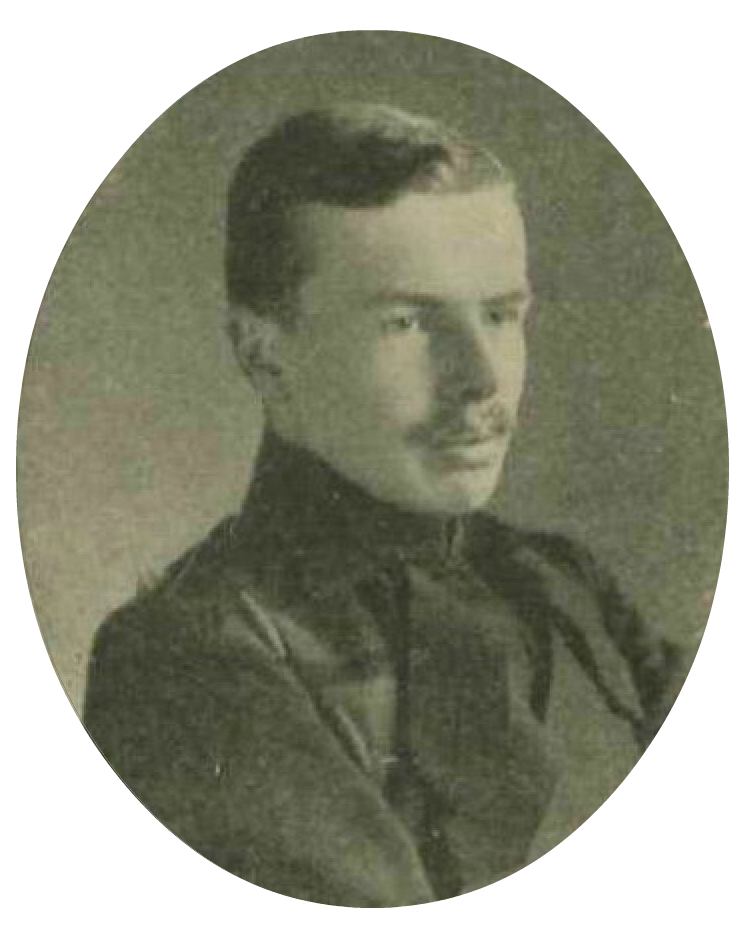 Percy Archer Clive (1873-1918), MP, a photograph published in 1900 following his election to the House of Commons.